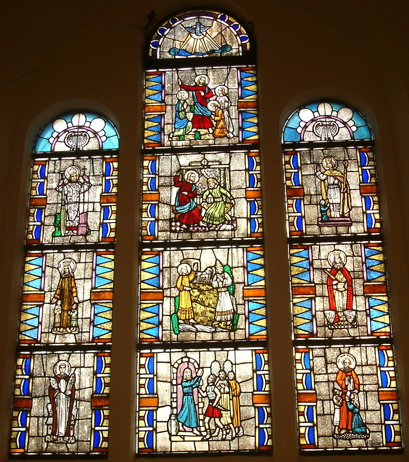 Church of Mother of Sorrow in Poznań, Stained glass